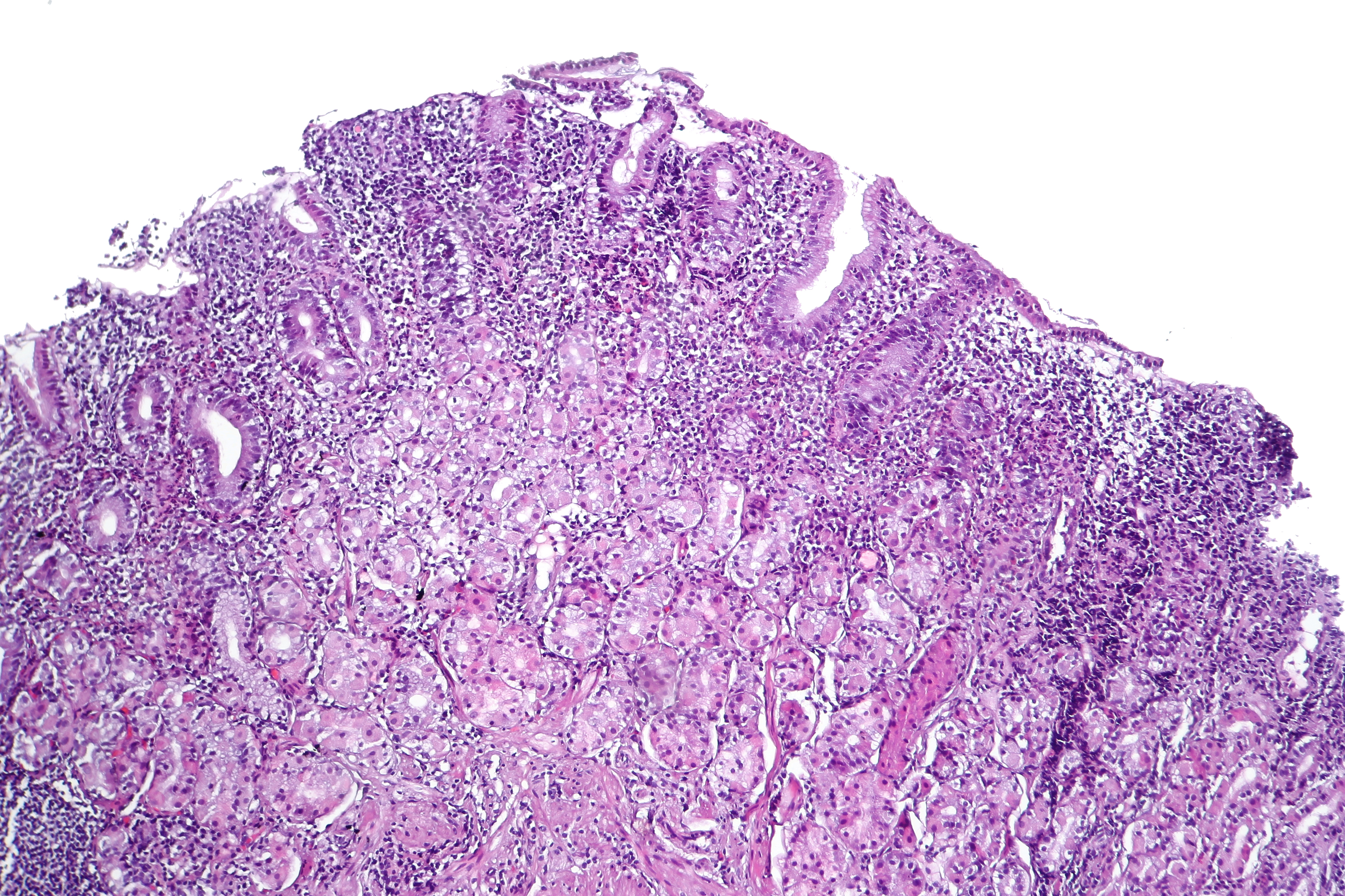 Acute gastritis, Helicobacter pylori. Stomach biopsy with features suggestive of Helicobacter gastritis: band-like superficial lymphoplasmacytic inflammation and neutrophils infiltrating the lamina propria and the foveolar and glandular epithelium. H&E stain.